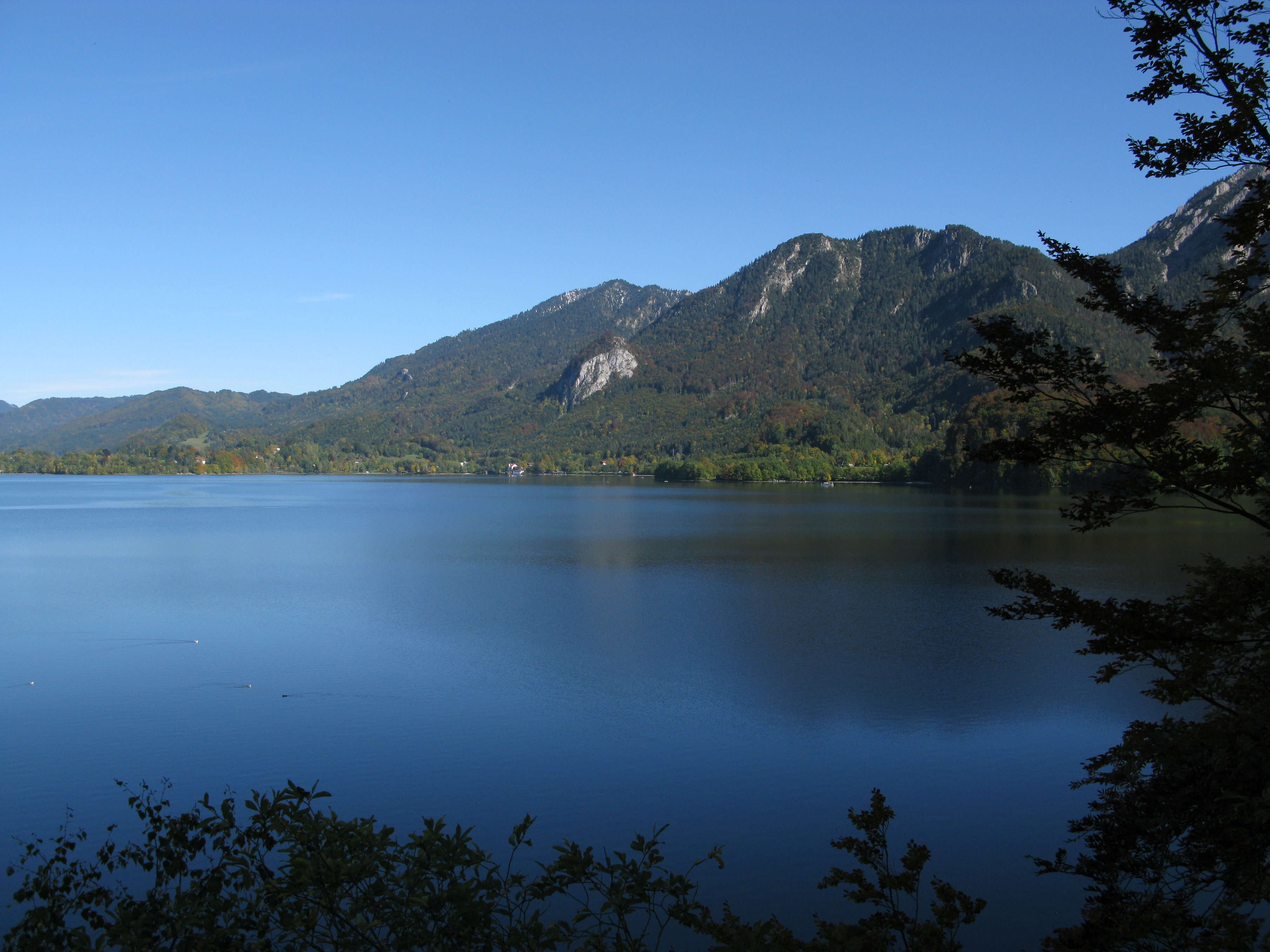 The Lake Kochel (Kochelsee) and Kochel am See on the opposite shore in Upper Bavaria, Germany.